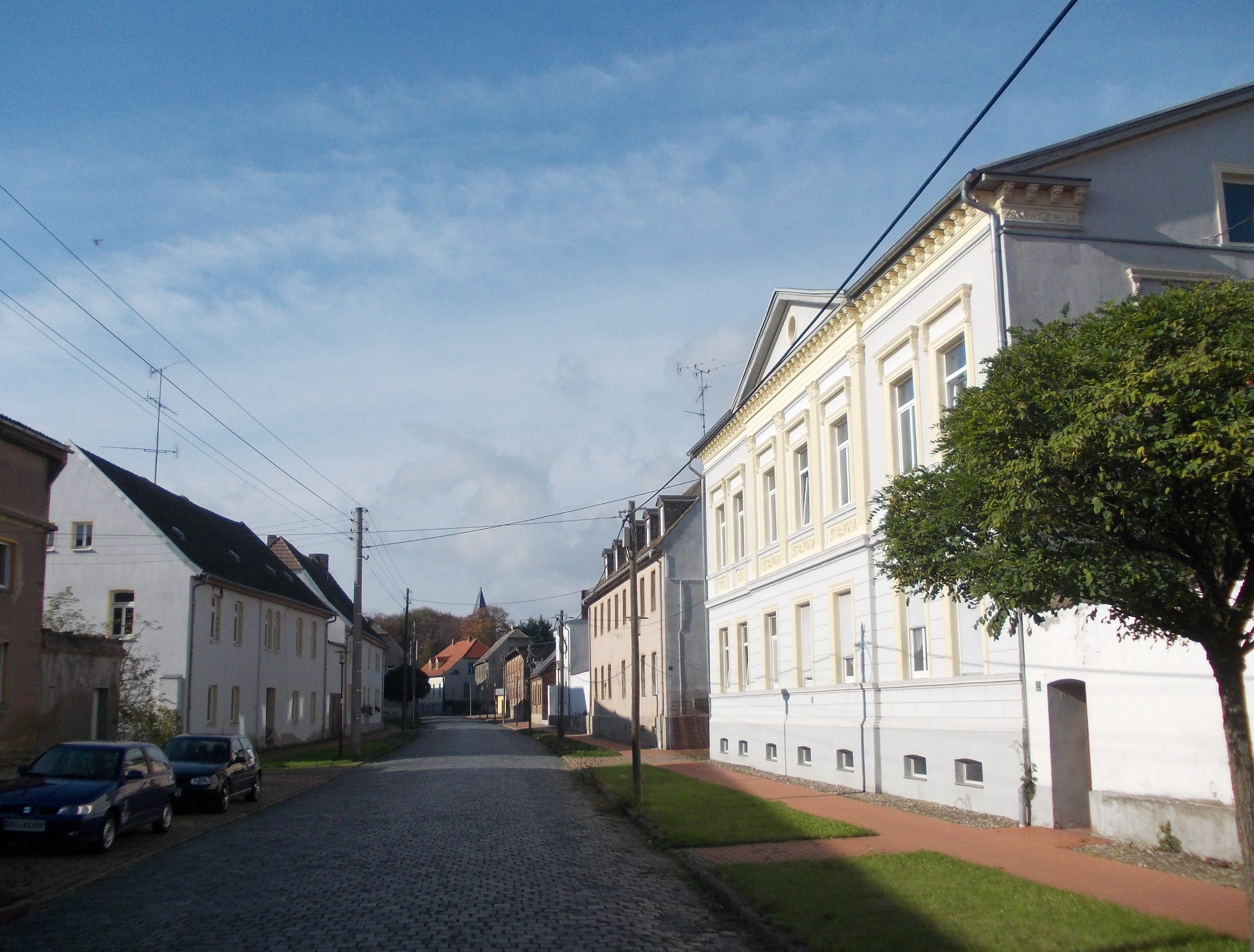 Im Bauerndorf street in Kleinpaschleben (Osternienburger Land, Anhalt-Bitterfeld district, Saxony-Anhalt)